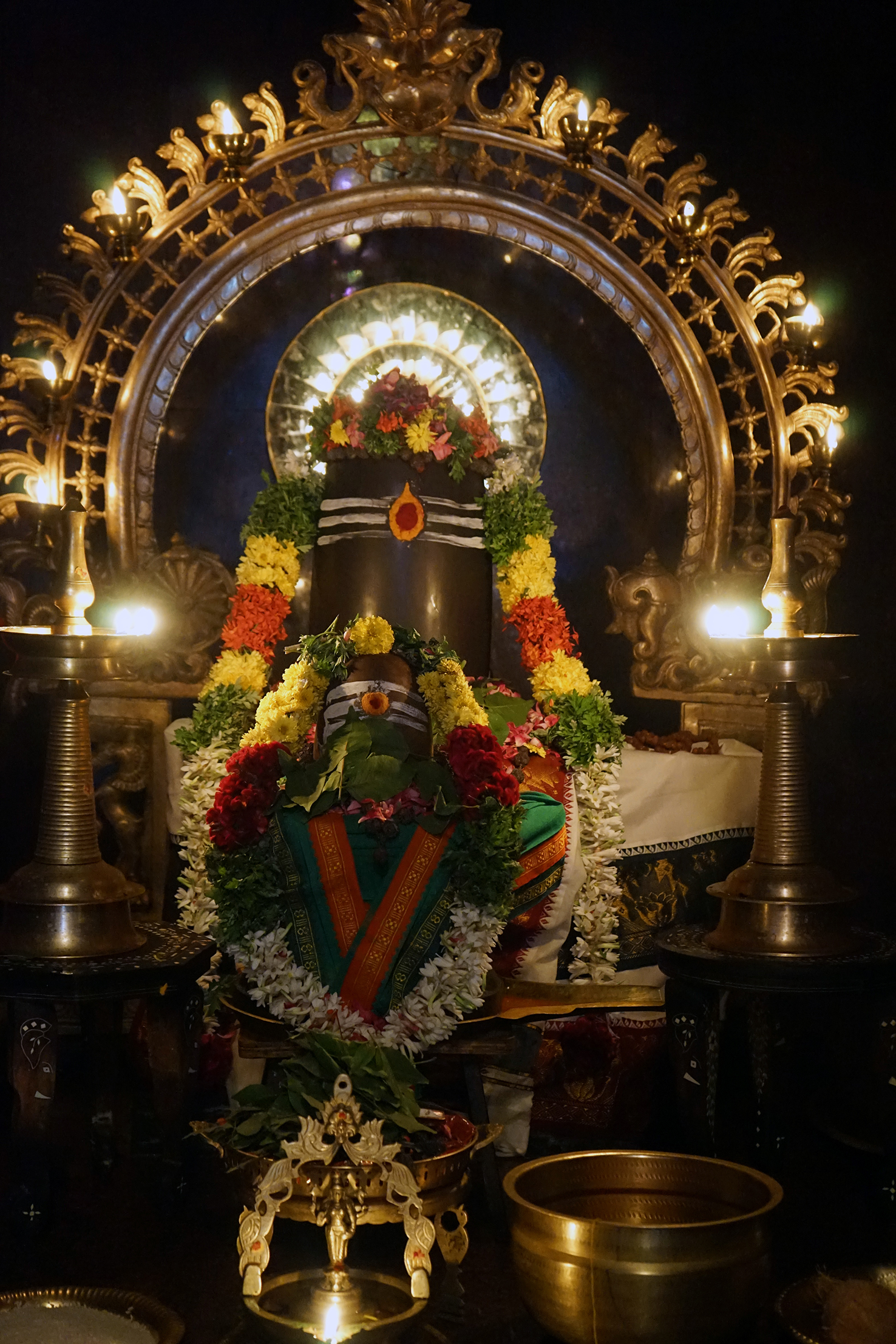 Swami Premananda Samadhi Temple in Trichy